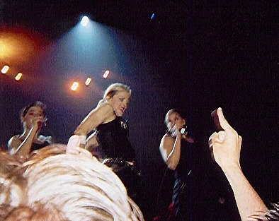 Madonna performing "Holiday" on the Drowned World Tour